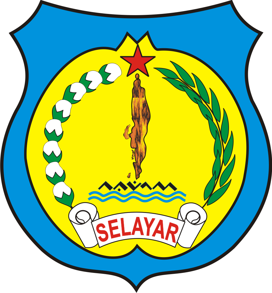 Coat of Arms (Lambang) of Regency (Kabupaten) Kepulauan Selayar, Provinsi Sulawesi Selatan (South Sulawesi Province), Indonesia